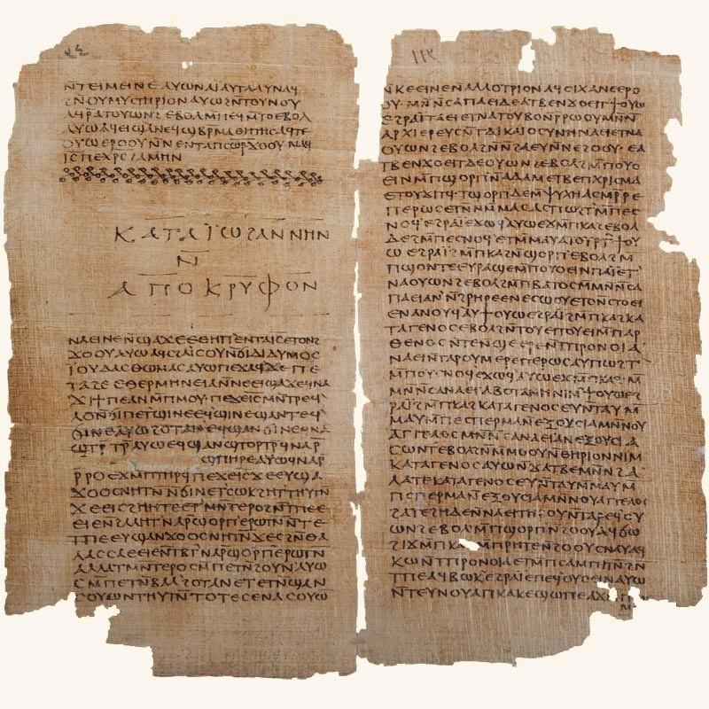 The Secret Book of John (Apocryphon of John) is a 2nd-century AD Sethian Gnostic text of secret teachings.